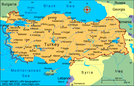 Map of Anatolia or Turkey